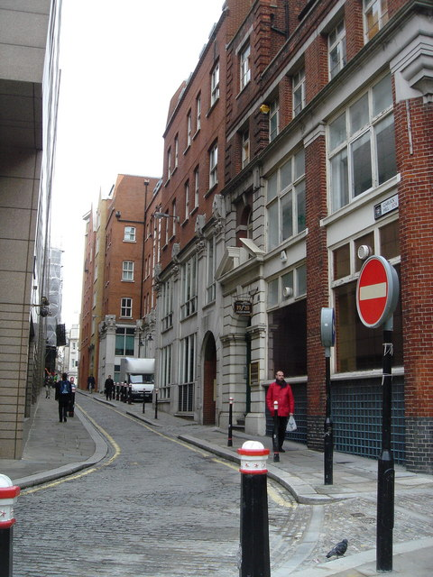 London, Garlick Hill On the left half way up was the Headquarters of the old Hudson's Bay Company...on the right was Lothar Weiss's Skins and Furs Trading Company (1-3, Great St. Thomas Apostle)...now both no longer exist here.